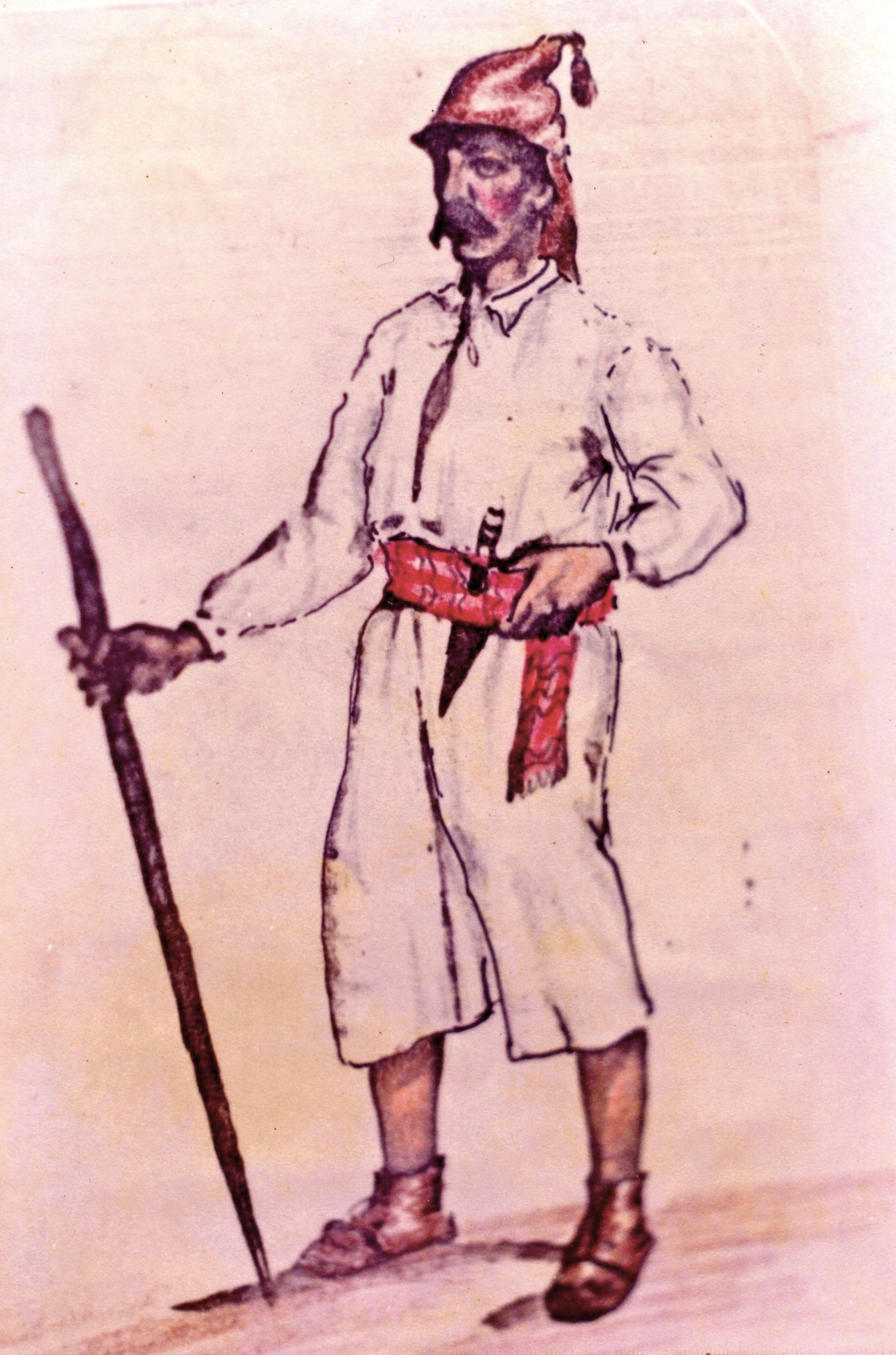 Drawing of a farmer wearing the traditional Gran Canaria's knife, the "cuchillo canario" (Canary knife), attached to his cumberband.